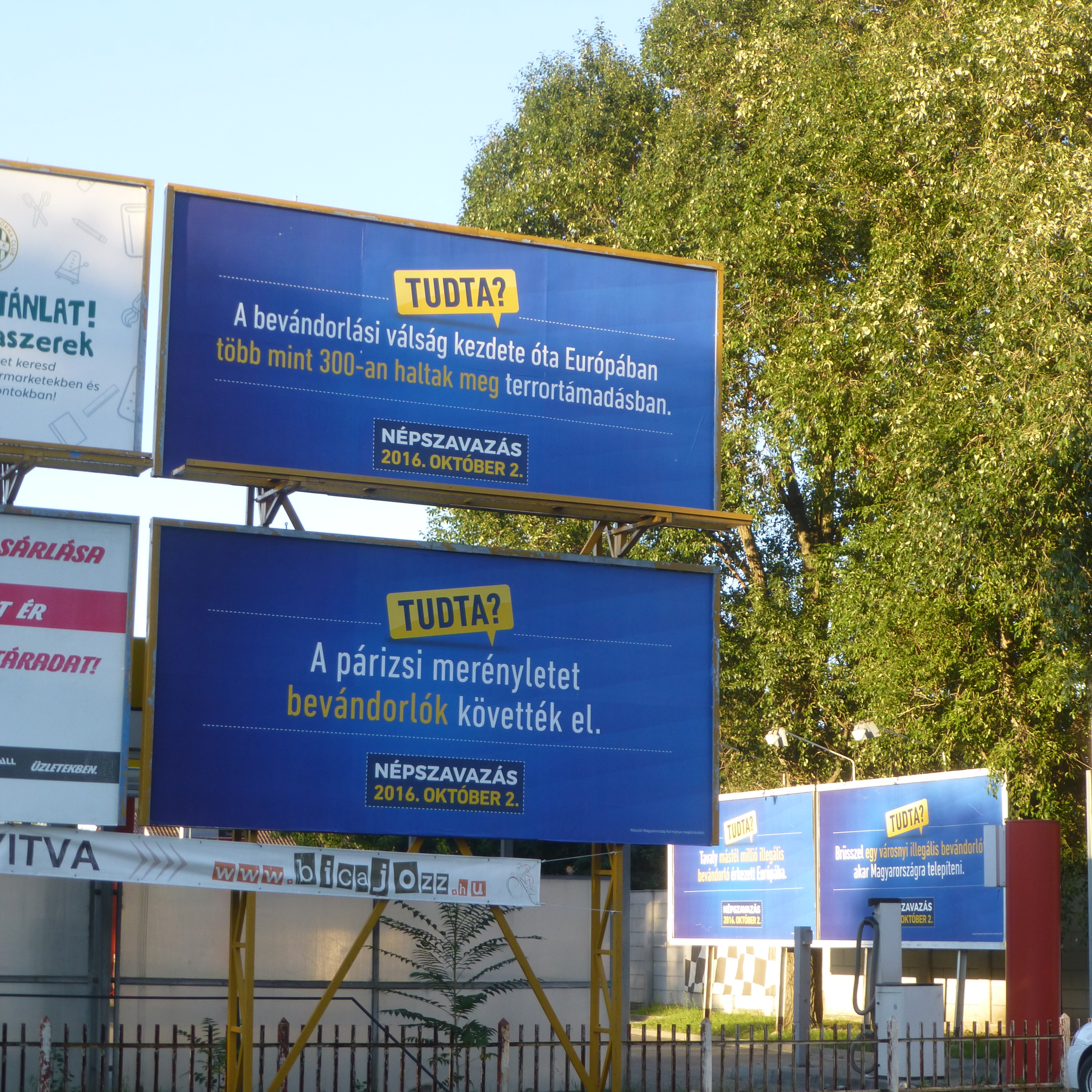 2016 Hungarian Referendum. Posters of the government in the Vásárhelyi Pál street, Szeged, Hungary